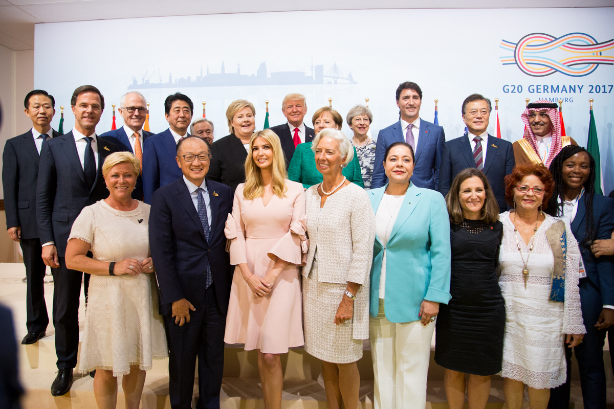 The G20 Summit | July 8, 2017 (Official White House Photo by Shealah Craighead)